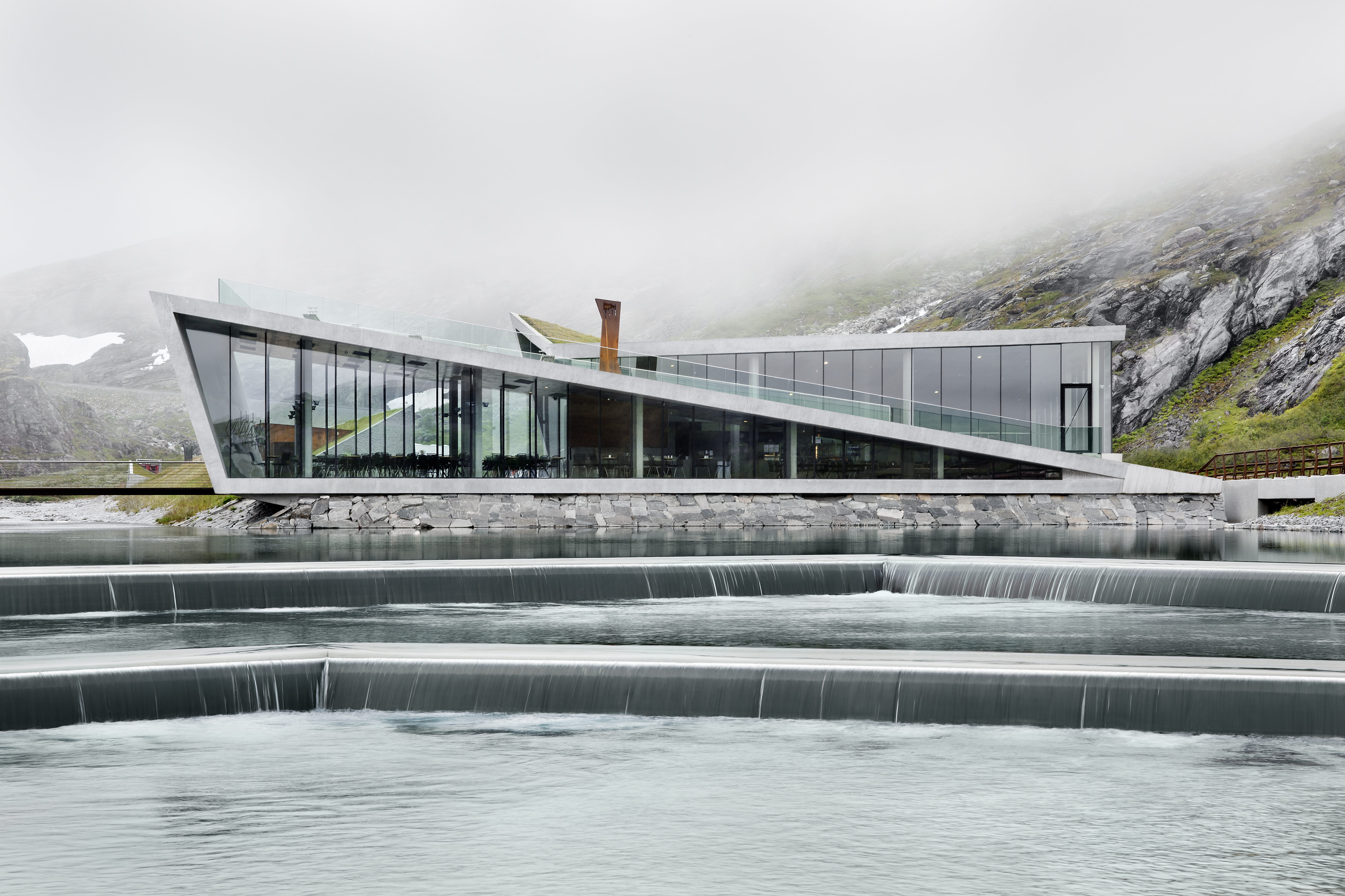 Trollstigen